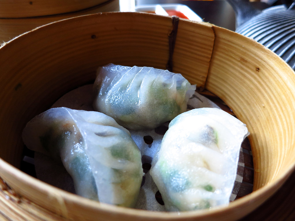 Dim Sum Dumpling